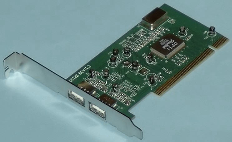 USB 1.1 expansion card for PCI slot